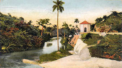 Canal of the Acqueducto de Albear for the water supply of the city of Havana